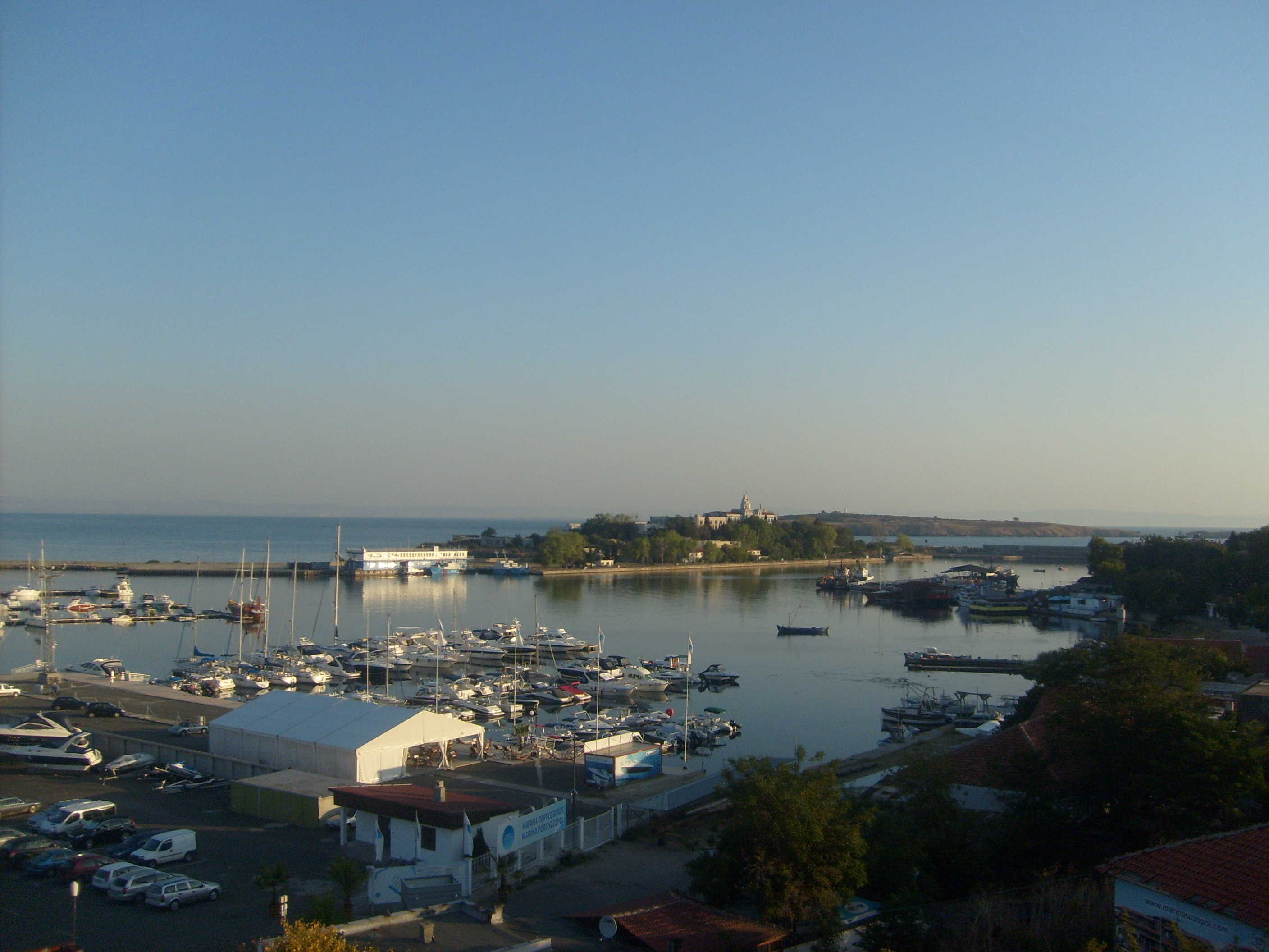 Sozopol Marina with St Cyricus Island